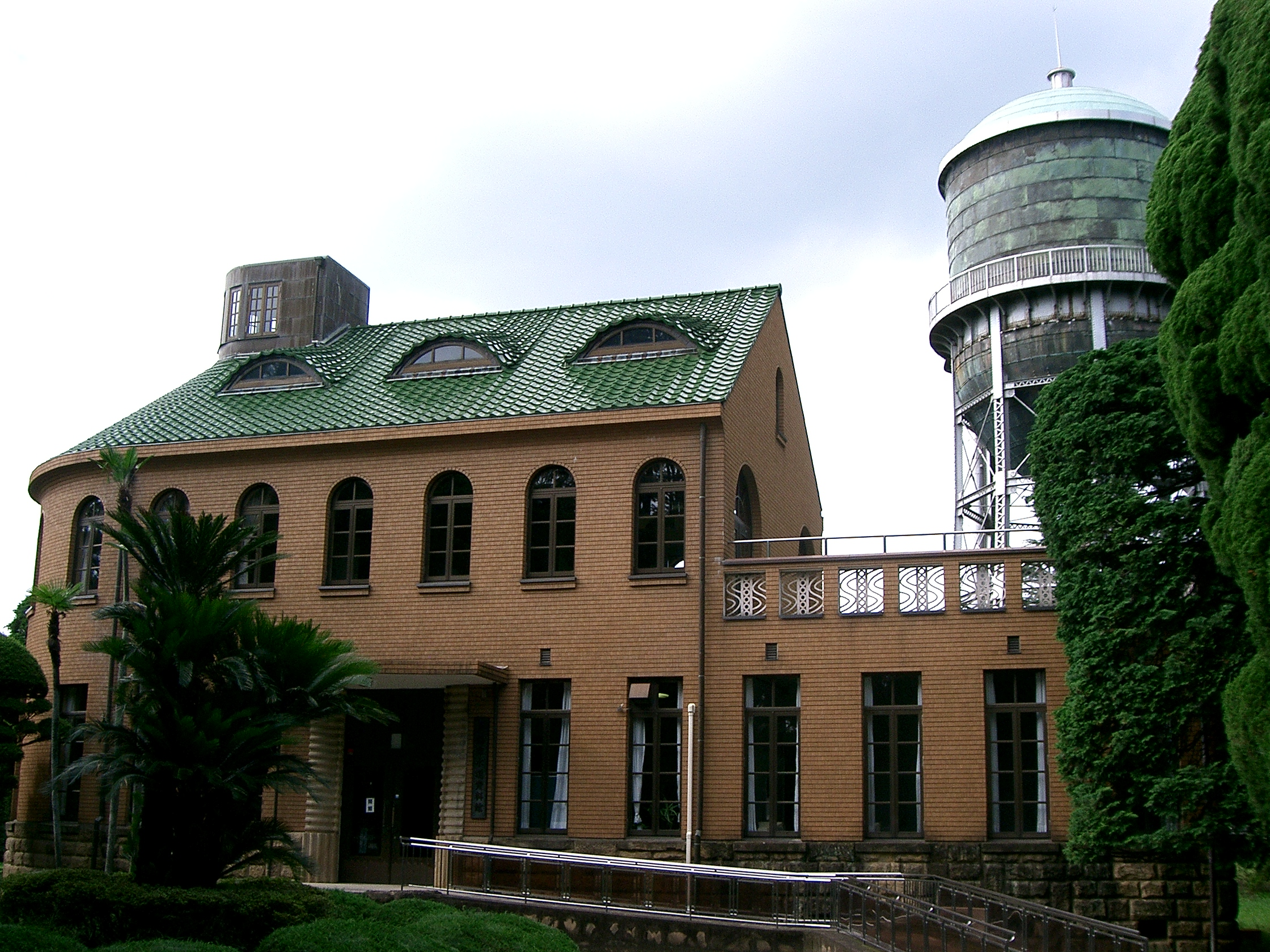 Maebashi City Museum of Water (Maebashi-shi Suido Shiryokan)